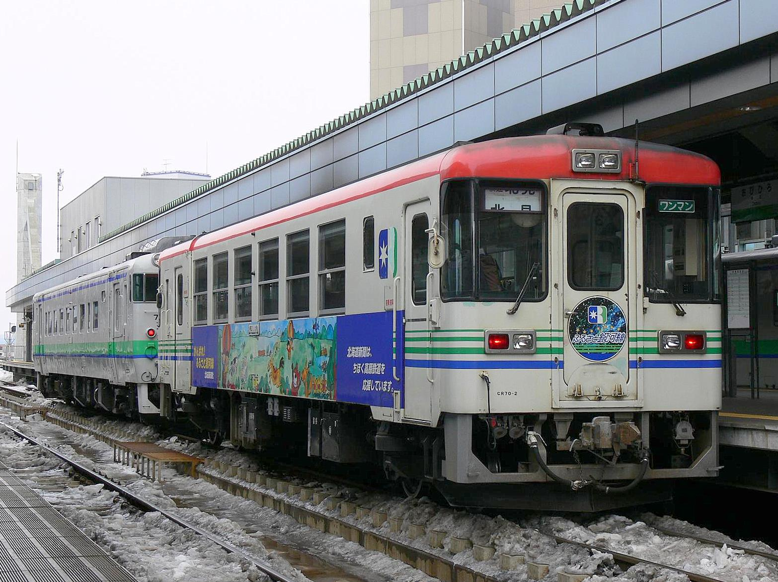 Hokkaido Chihokukogen Railway CR70-2 Diesel railcar.